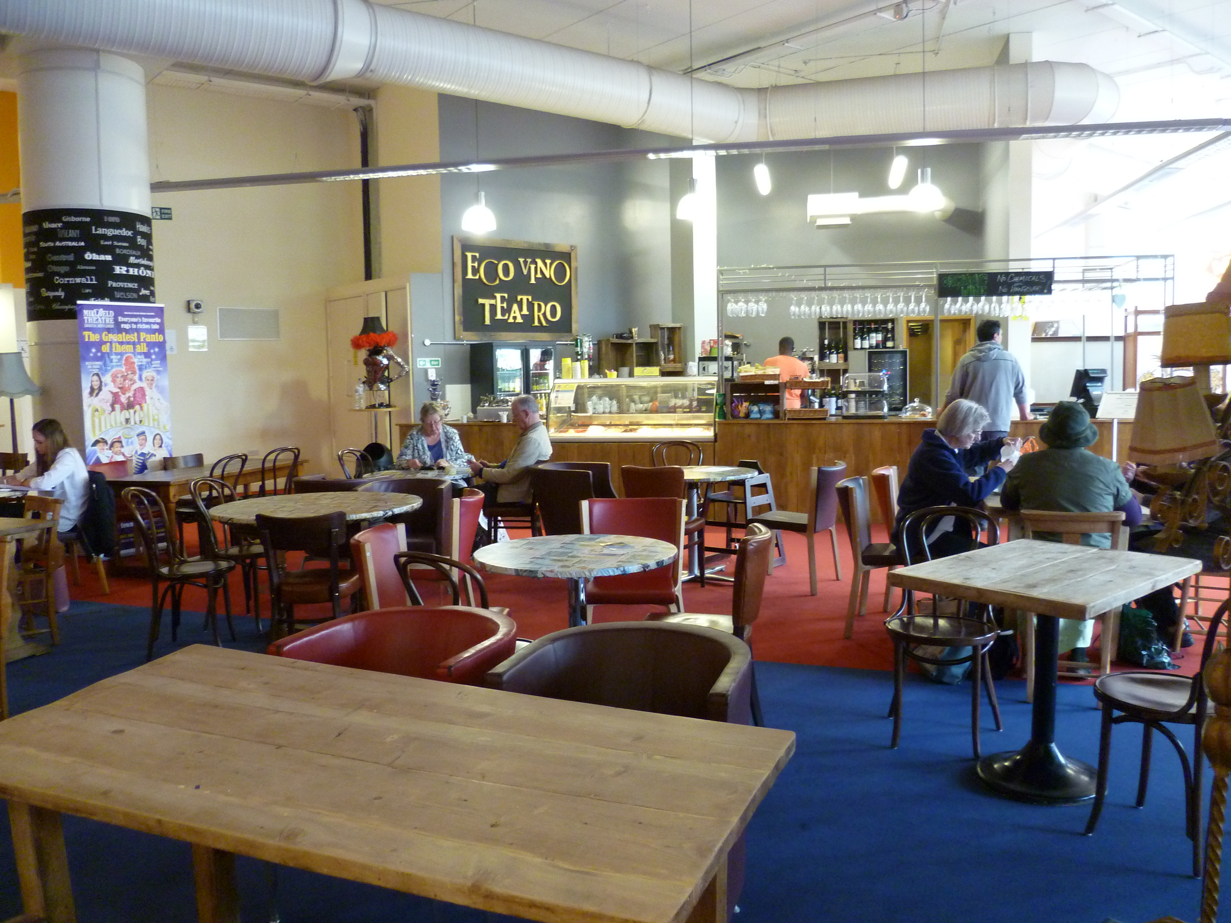 Dugdale Centre cafe